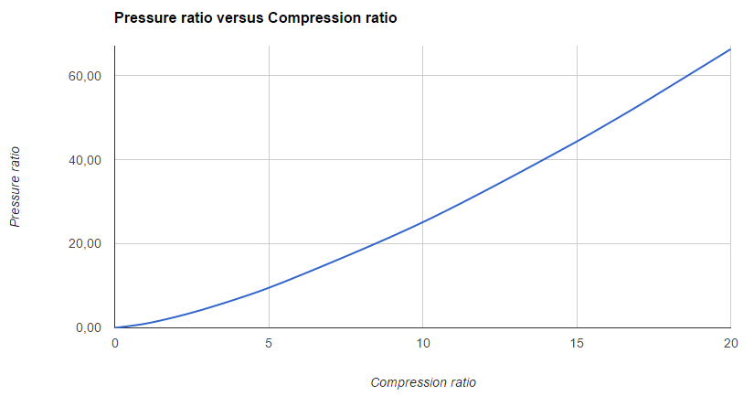 Overall pressure ratio